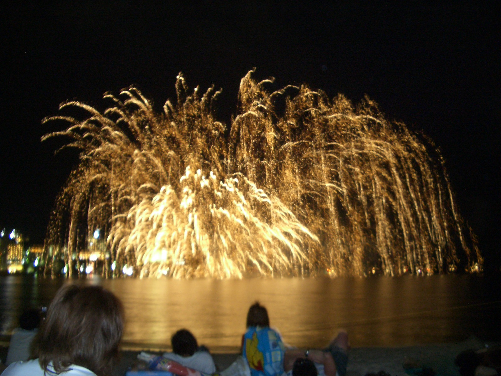 Shirahama Fireworks Festival 2006